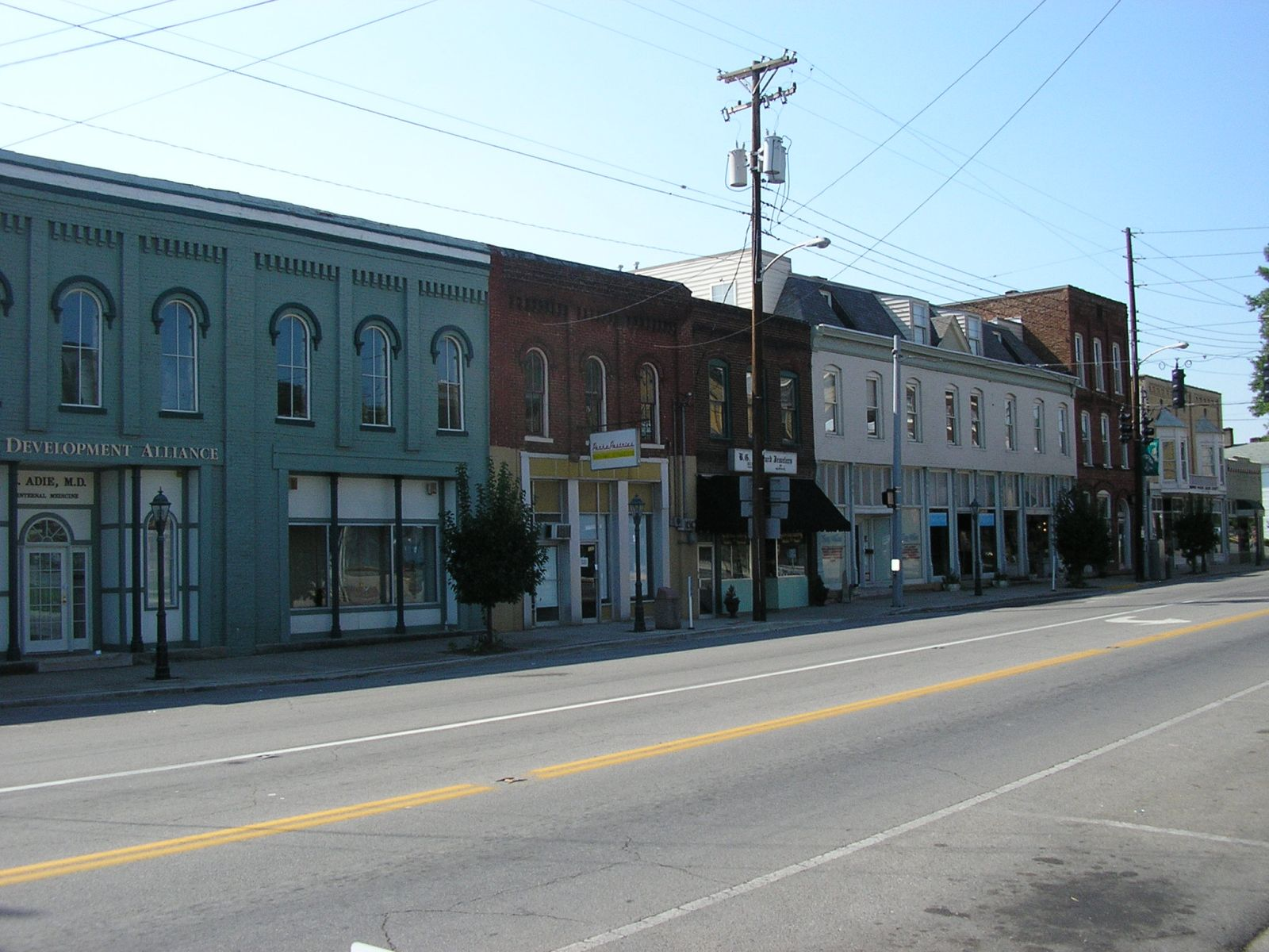 Downtown Irvine, KY, USA